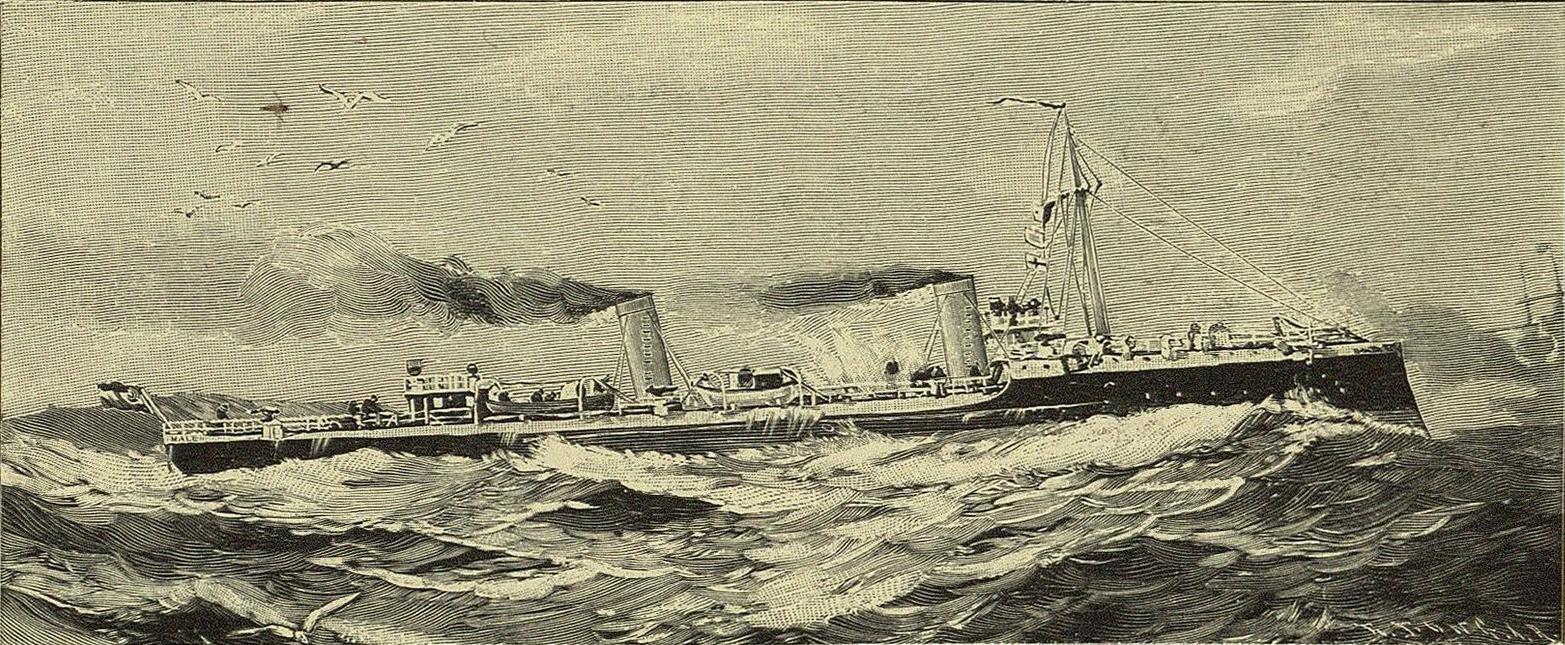 Illustration from an advertisement for the Schichau company in the German book Weltausstellung in Paris 1900, edited by Otto N. Witt and published in Berlin, 1900.